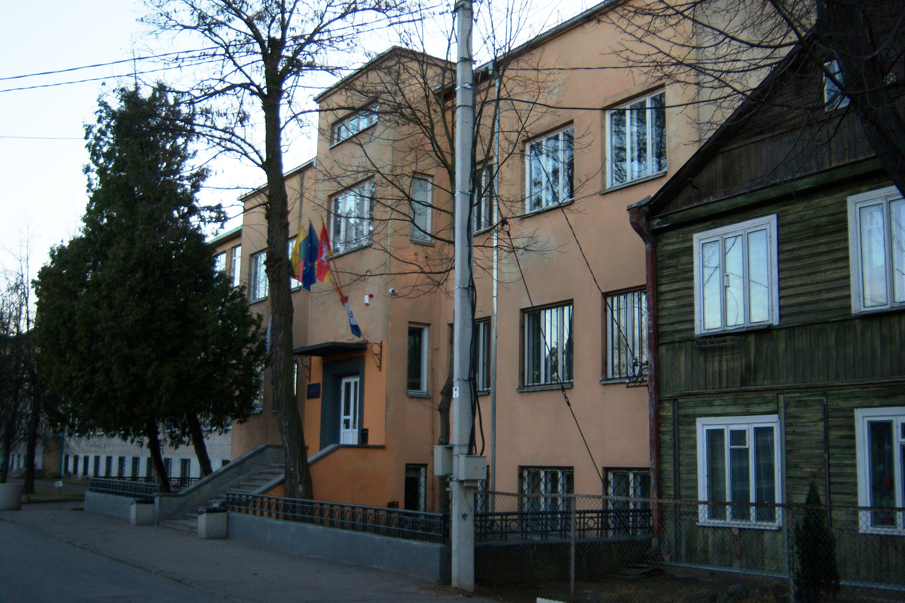 Secondary School of Lithuanian University of Health Sciences in Kaunas